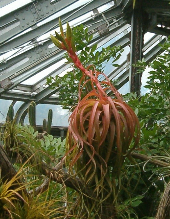 At Botanical Gardens Berlin-Dahlem Species Tillandsia roland-gosseliniii